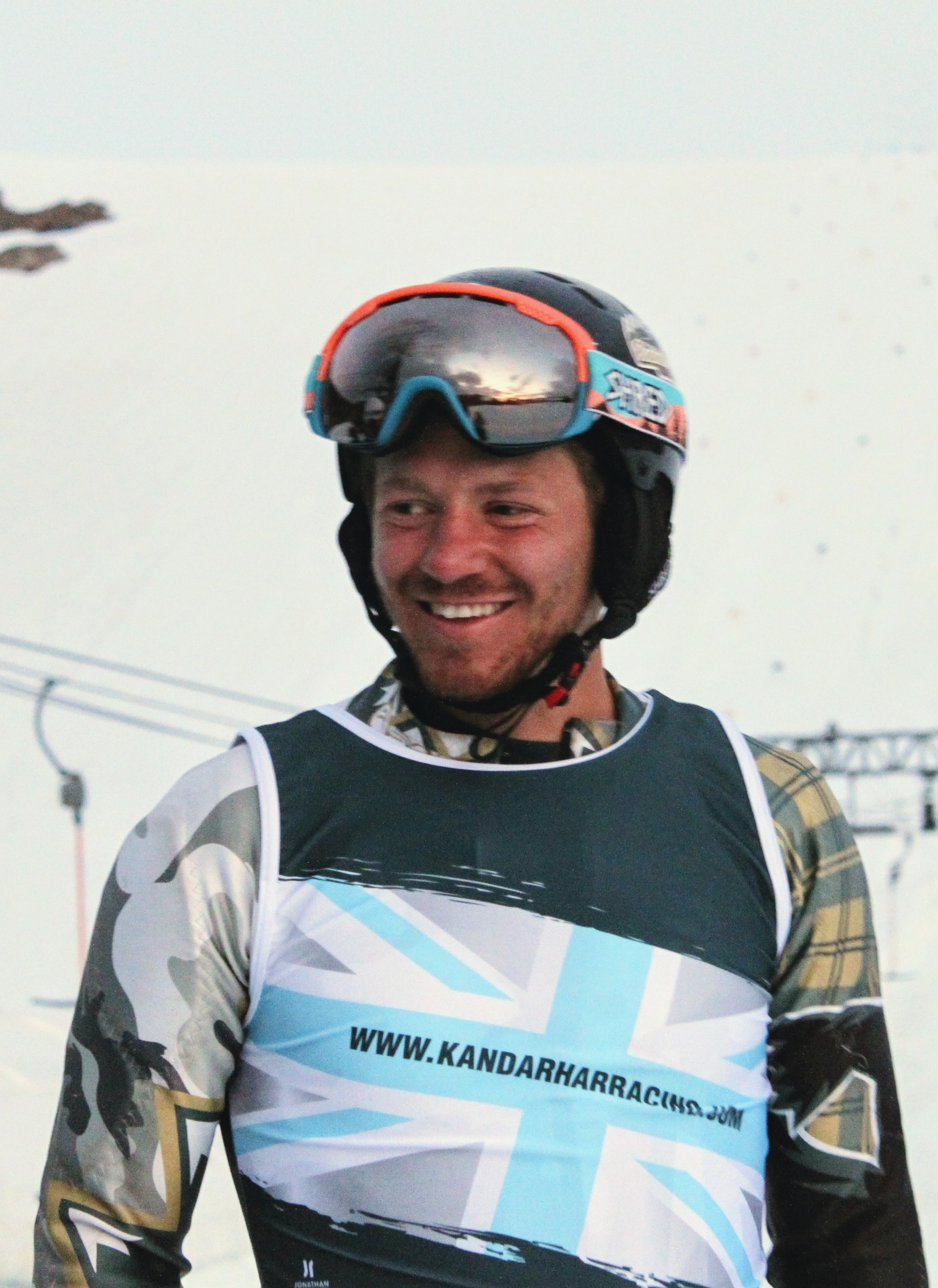 Robby Kelley Fonna